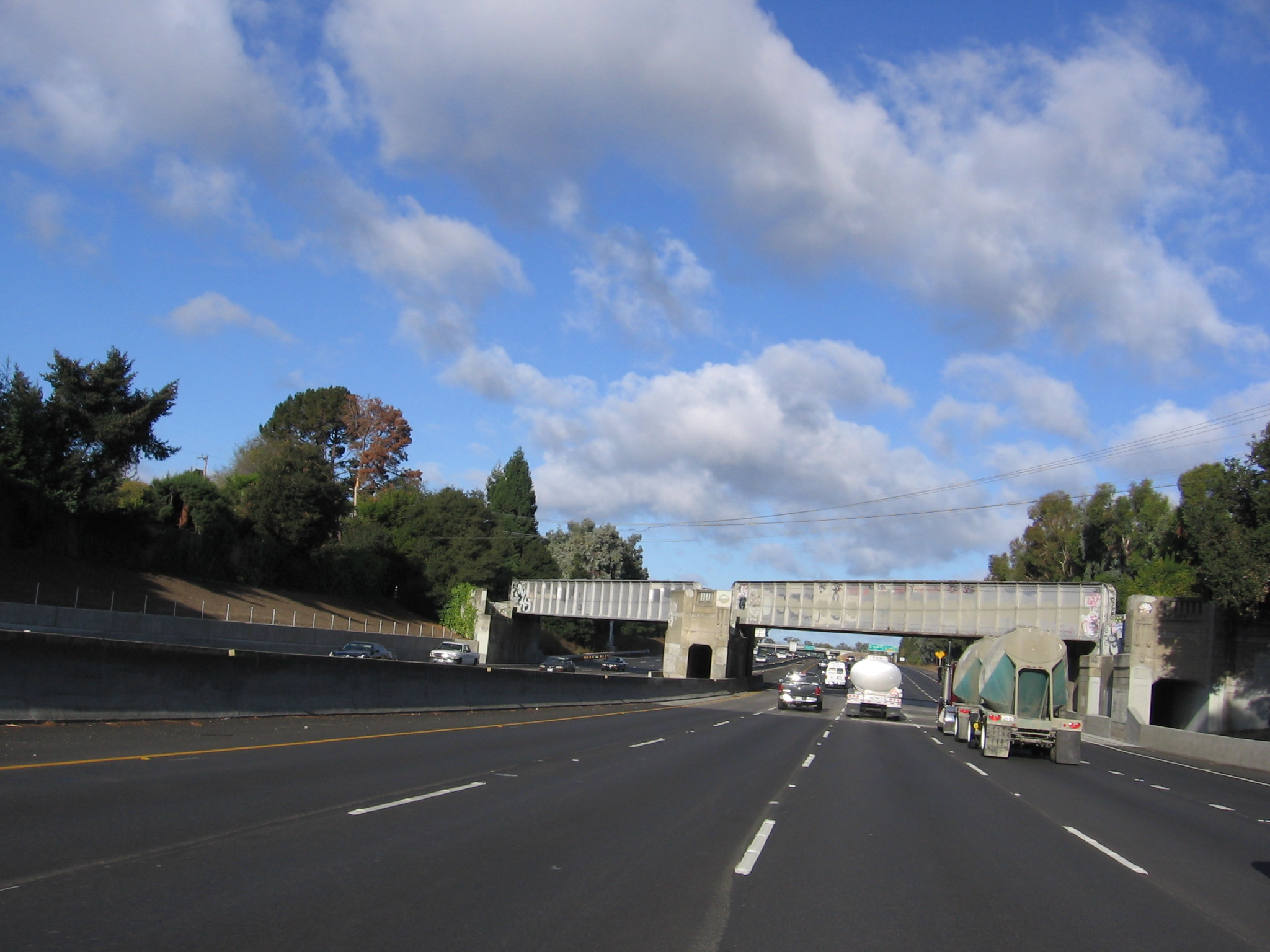 View from a northbound lane of U.S. Route 101 in Menlo Park of the bridge that used to carry rail traffic from and to the Dumbarton Rail Bridge.